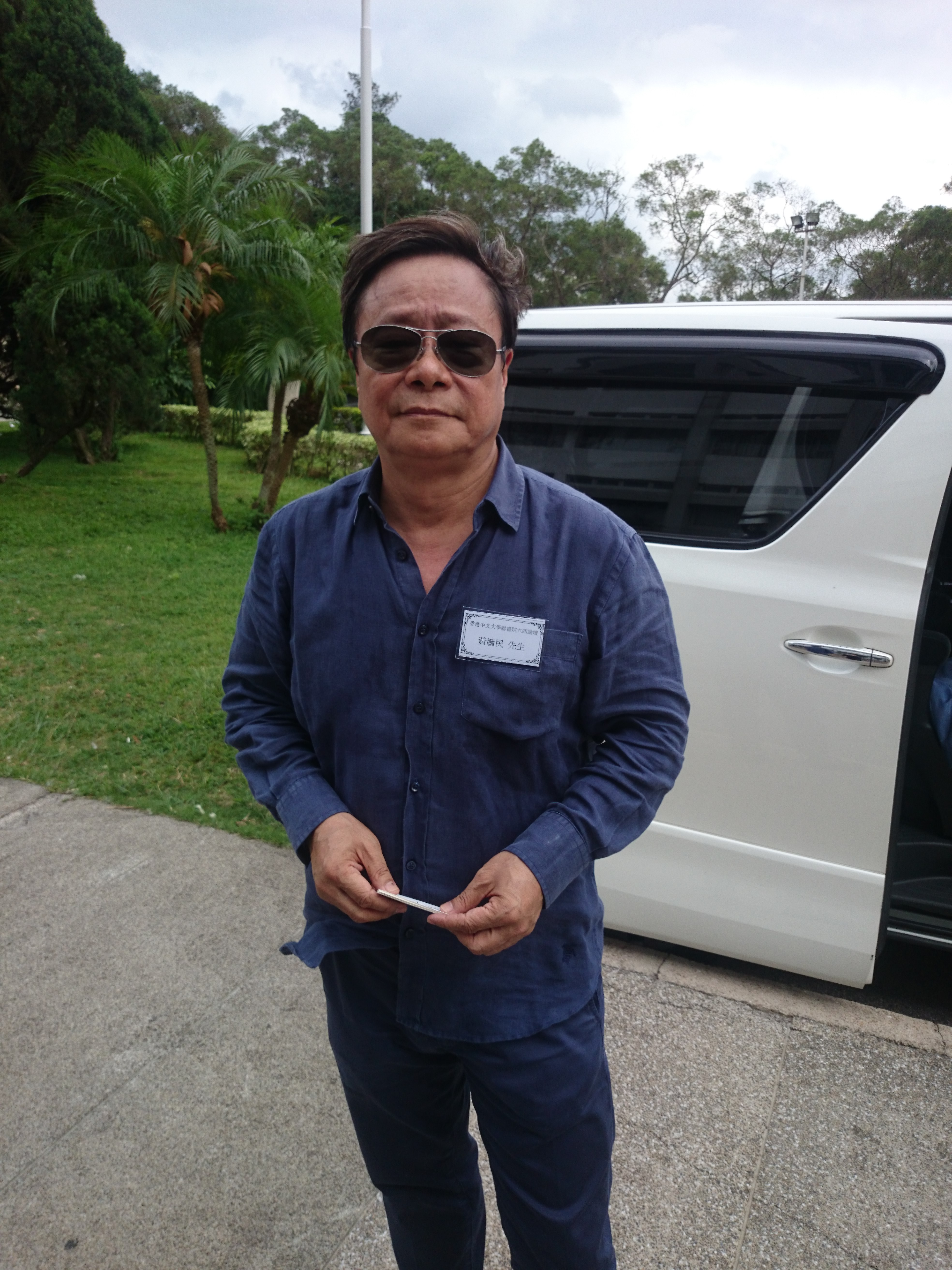 Raymond Wong stood at New Asia College on June 6, 2017.